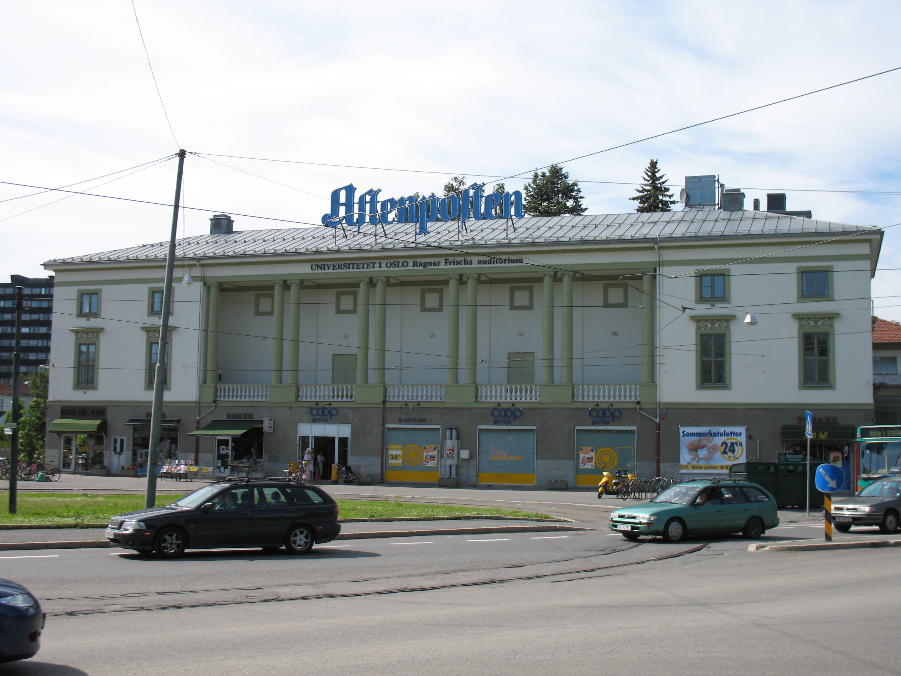 Ragnar Frisch' auditorium. The University of Oslo